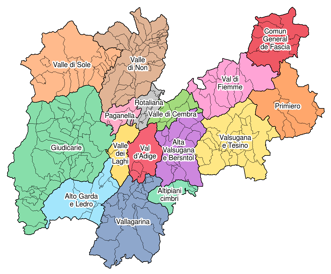 Map of "Valley Communities", Autonomous Province of Trento, Trentino-South Tyrol, Italy